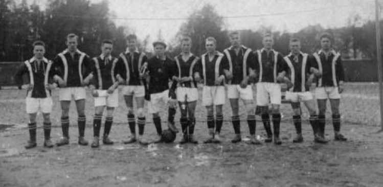 Töölön Vesa, 1926 foorball champios of the Finnish Workers' Sports Federation.